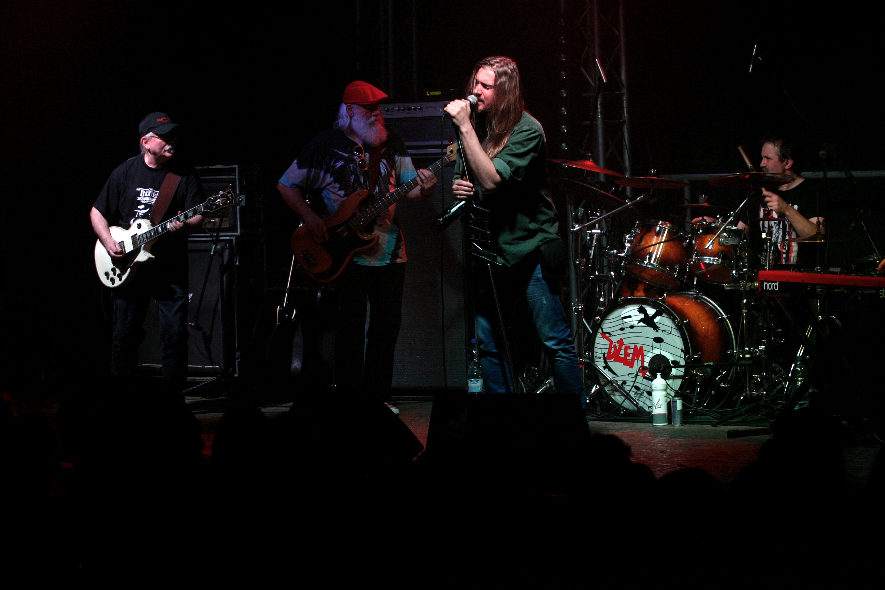 Dzem - Concert in Lodz, music club „Dekompresja”, 22 March 2013.